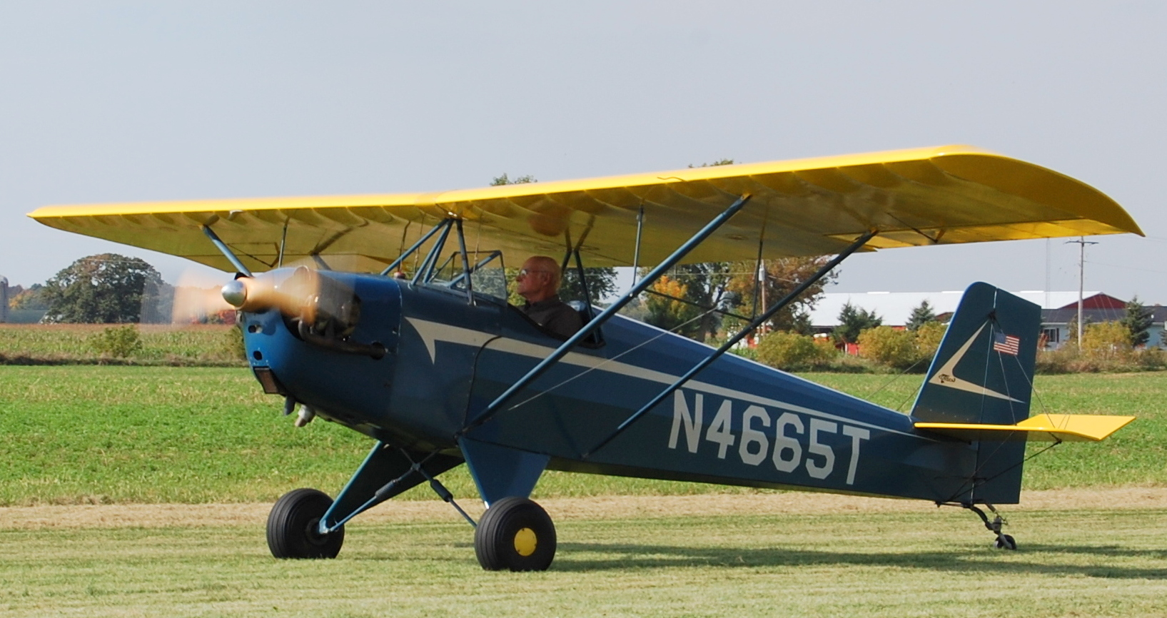 1965 Baby Ace Model D flying in 2015 All Original Wisconsin